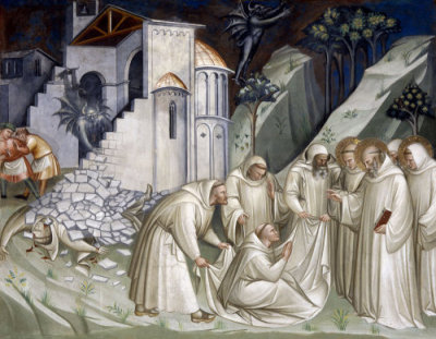 Saint Benedict Stories by Spinello Aretino